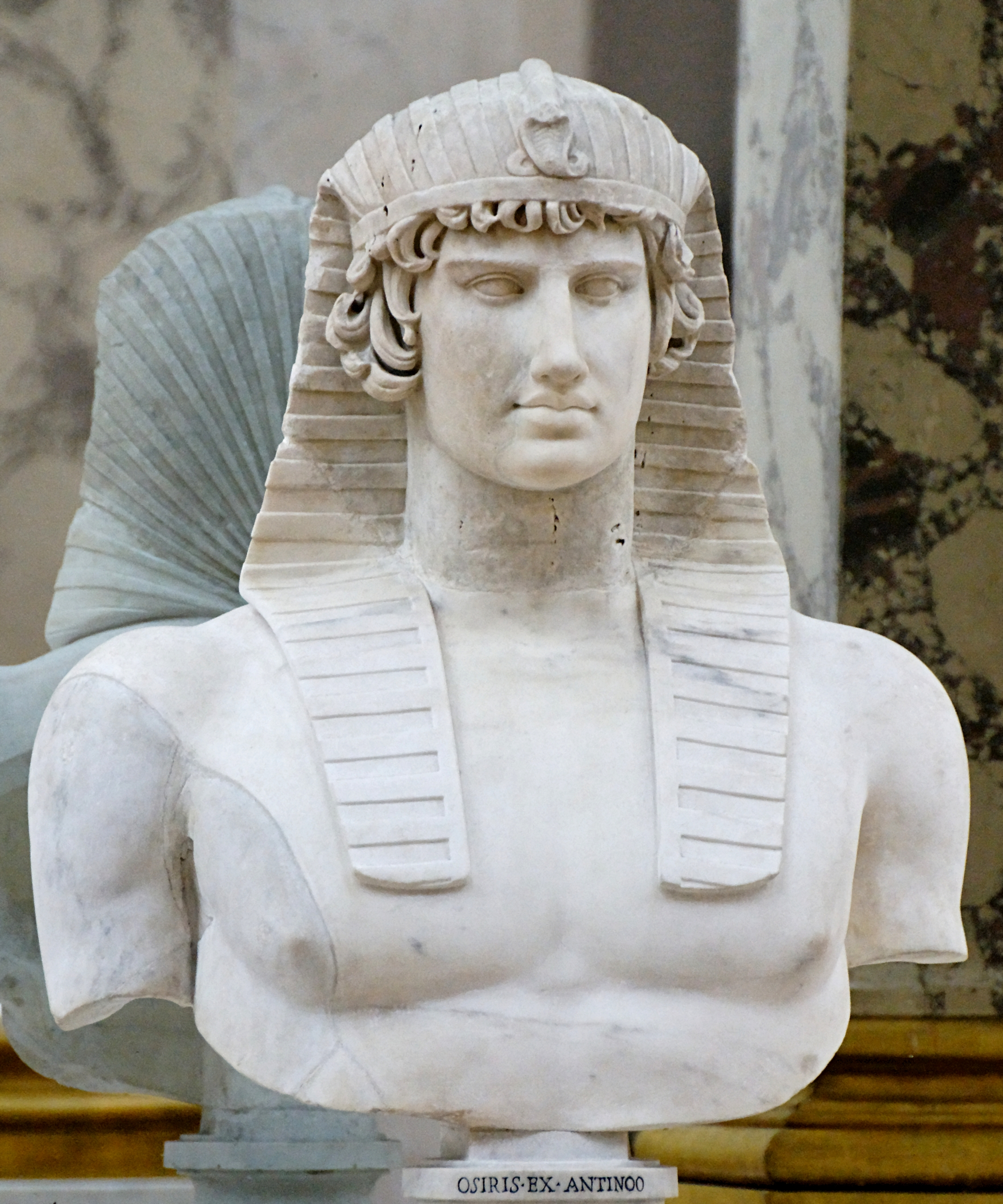 Antinous as Osiris, wearing the nemes and the uraeus (marble); the nose, mouth, left part of the face and major part of the bust are modern restorations. From the villa of Hadrian in Tivoli.